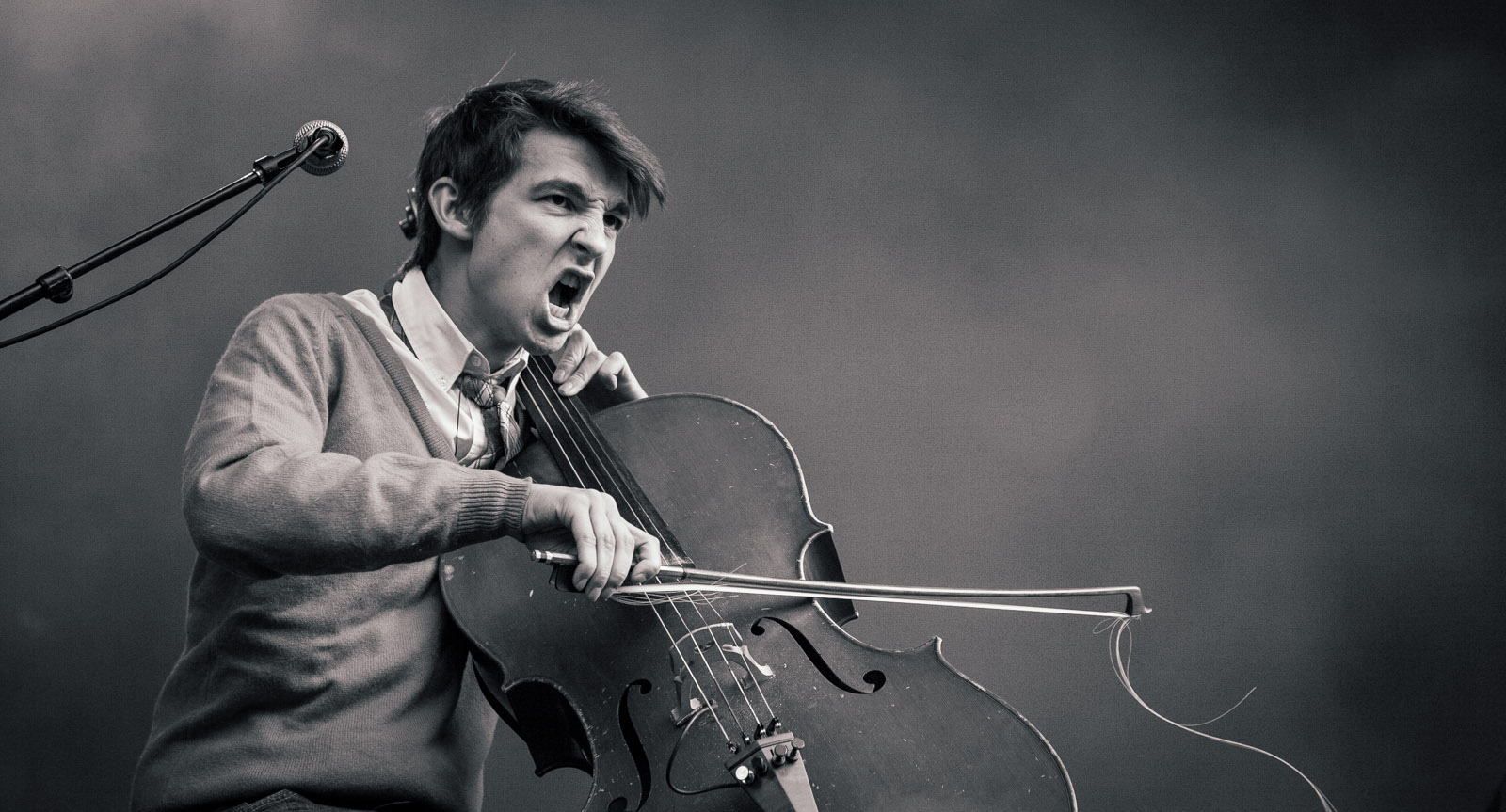 Honningbarna performing at Odderøya Live 2012